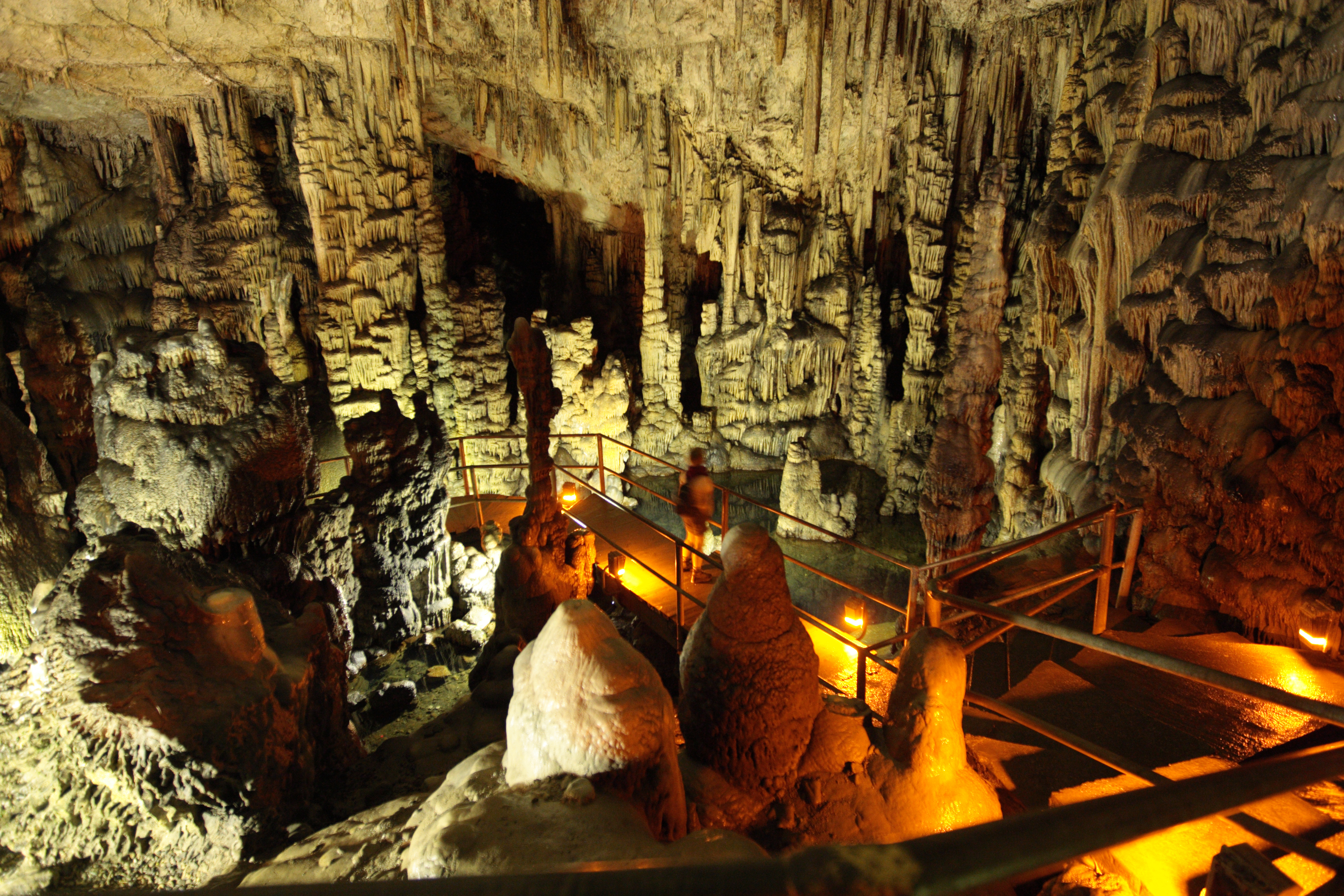 Cave of Dikti (Psychro Cave), Crete